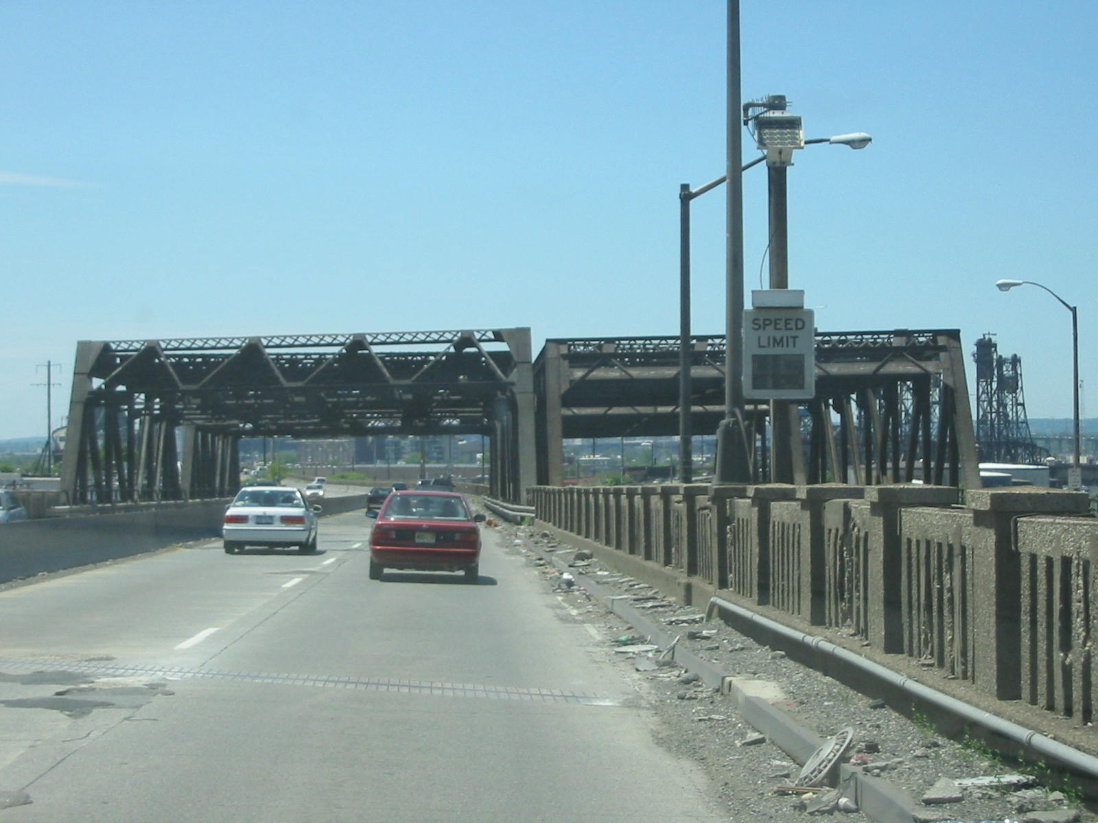 Southbound on the Pulaski Skyway at the bridge over Conrail's Northern Branch, with TRUCK US 1/TRUCK US 9 to the right. Photo taken May 30, 2004 by User:SPUI.